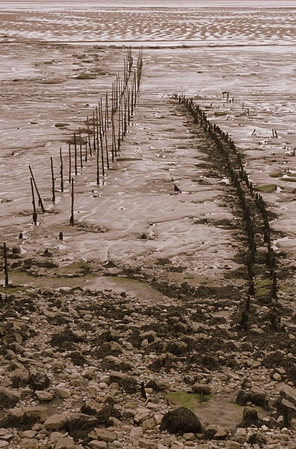 Old putcher rank on Portland Grounds This is probably the remains of an old putcher rank, where baskets were placed to allow fish to swim in at high tide and for the fishermen to retrieve them at low tide.